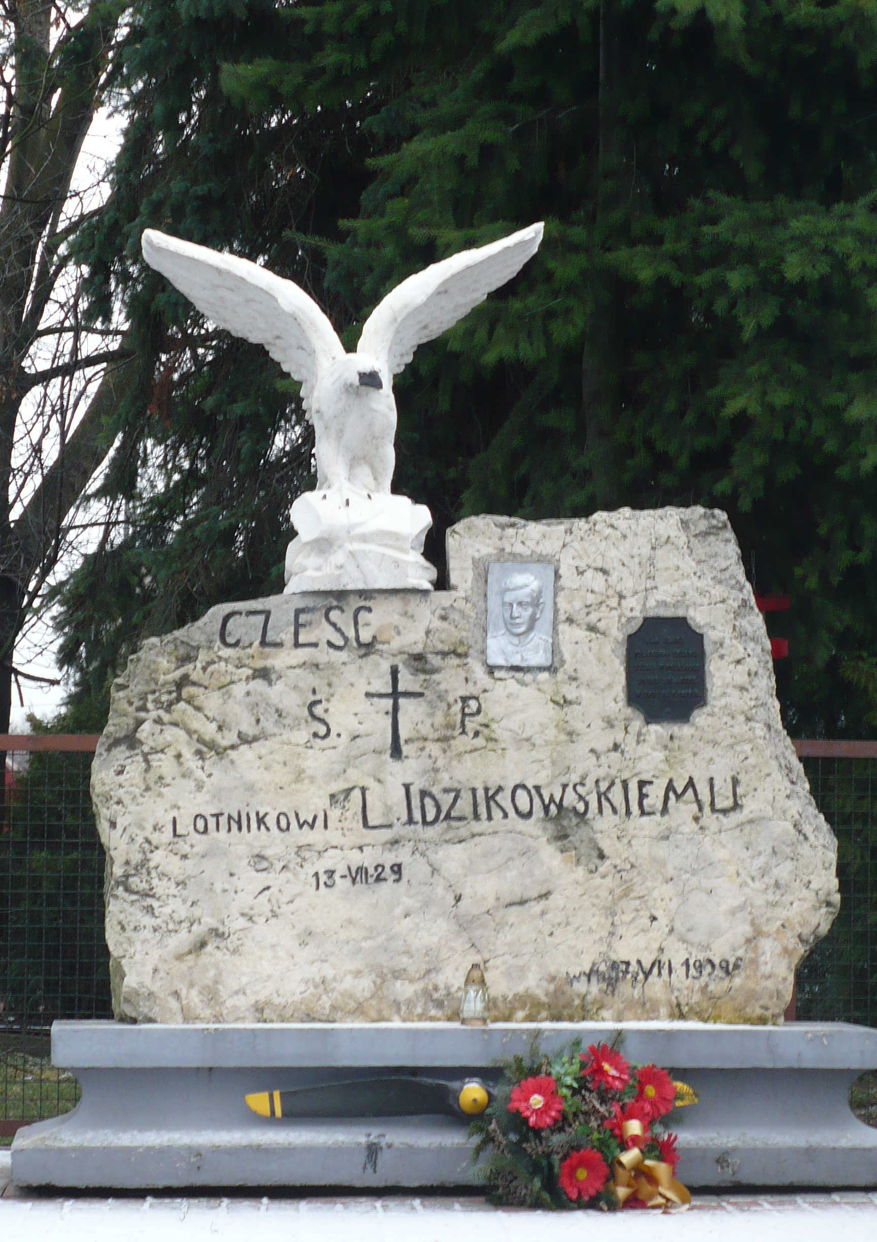 Monument commemorationg Polish aviator Ludwik Idzikowski in Dąbrowa Górnicza-Tucznawa